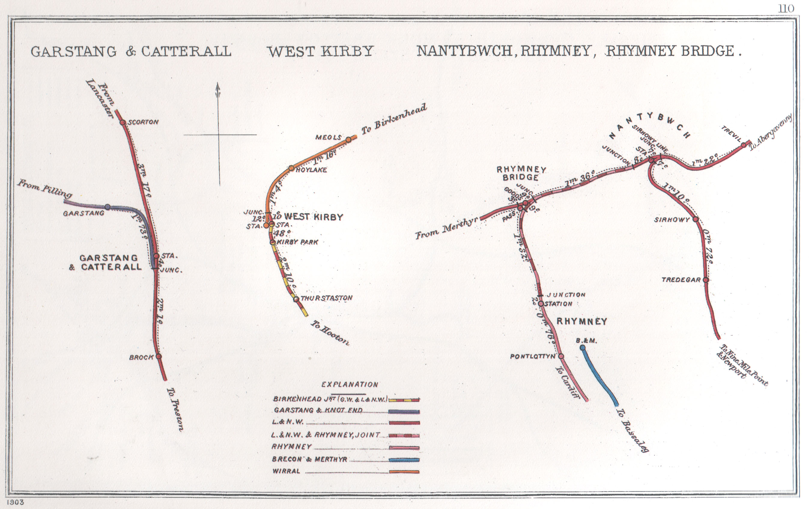 Railway Junctions in Garstang & Catterall, West Kirby; Nantybwch, Rhymney, Rhymney Bridge pre grouping